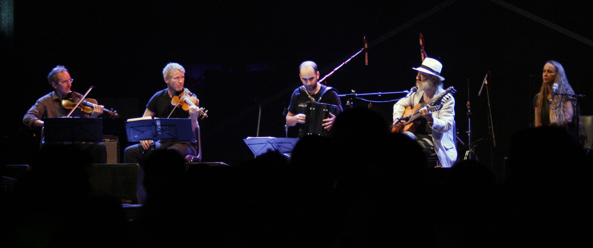 Austrian musicians Roland Neuwirth & die Extremschrammeln, concert at the Donauinselfest in Vienna).